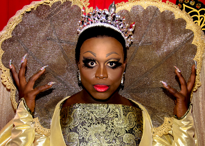 Bob The Drag Queen at RuPauls Dragcon 2017